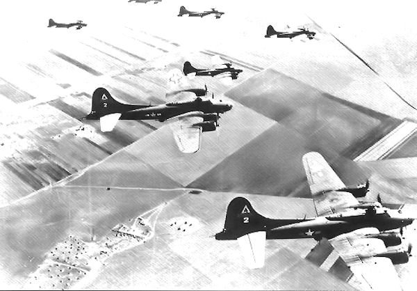 B-17F aircraft of the 342d Bomb Squadron, 97th Bomb Group attacking enemy targets at the Anzio Beachhead, January 1944. B-17F-85-BO Fortress 42-30056 is in foreground.